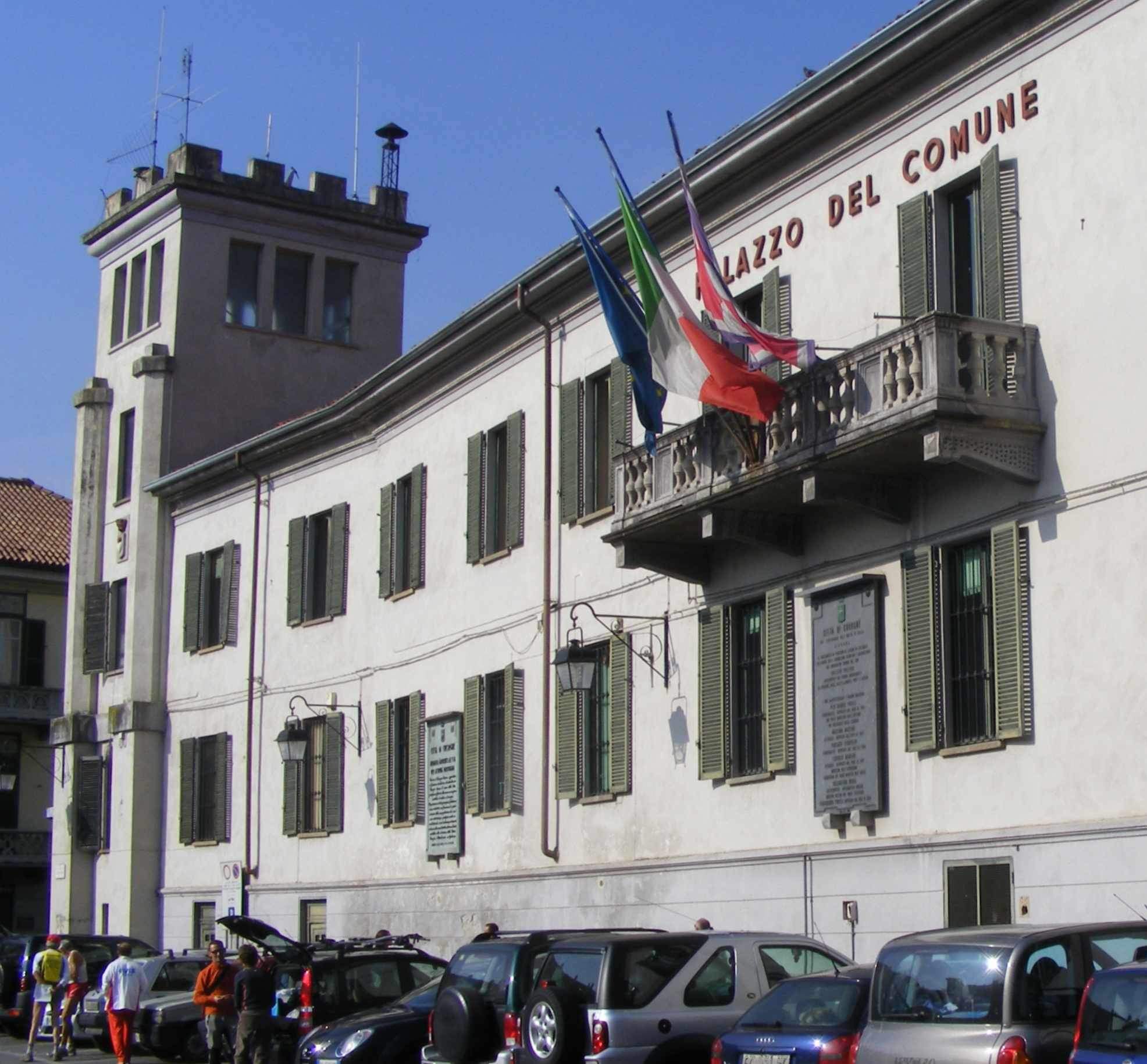 Cuorgnè (TO, Italy): town hall